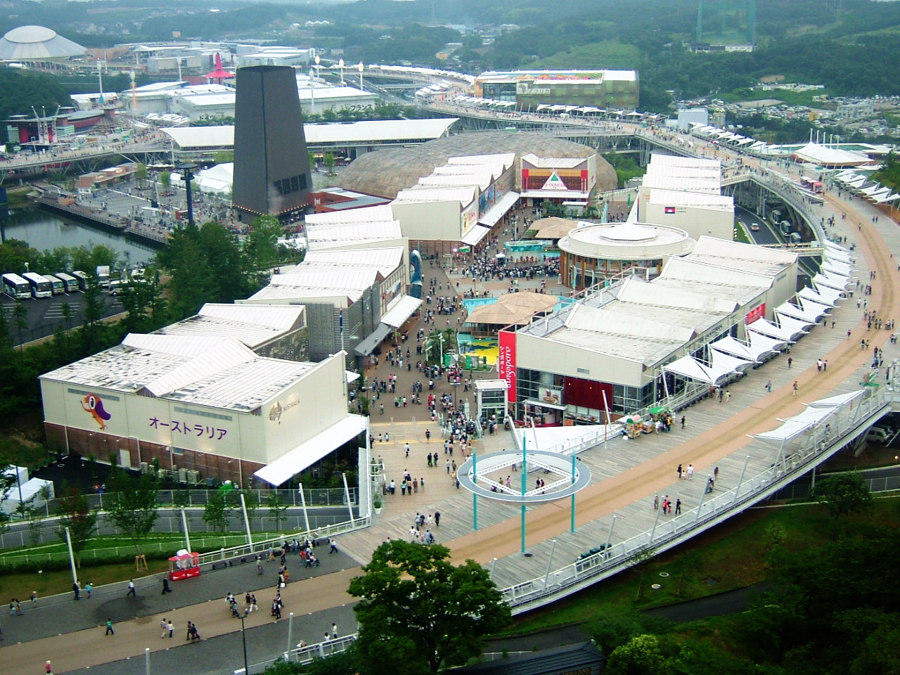 EXPO 2005_Aichi Japan in Nagakute Hell of Global Common 6.The foreign hall of Southeast Asia and Oceania is built and located in a line.